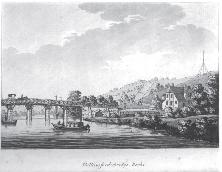 1791 view of Shillingford Bridge over the River Thames